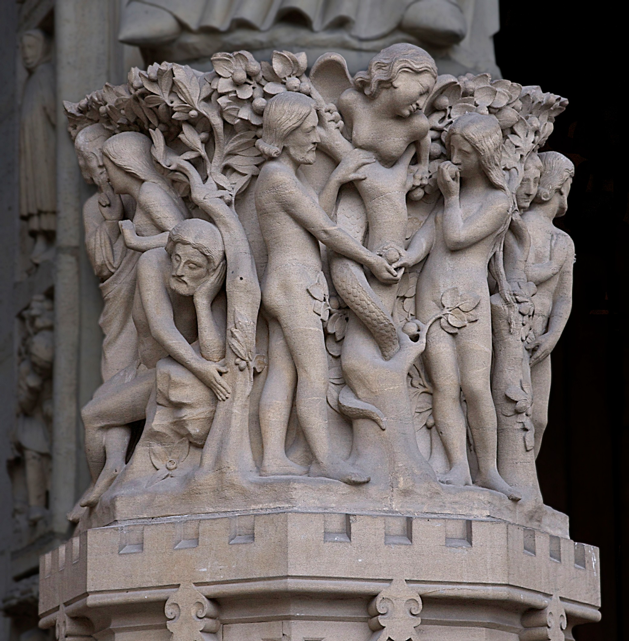 The story of the Eden Garden. The temptation of Adam & Eve by the devil. Pedestal of the statue of Madonna with Child, western portal (of the Virgin), of Notre-Dame de Paris, France